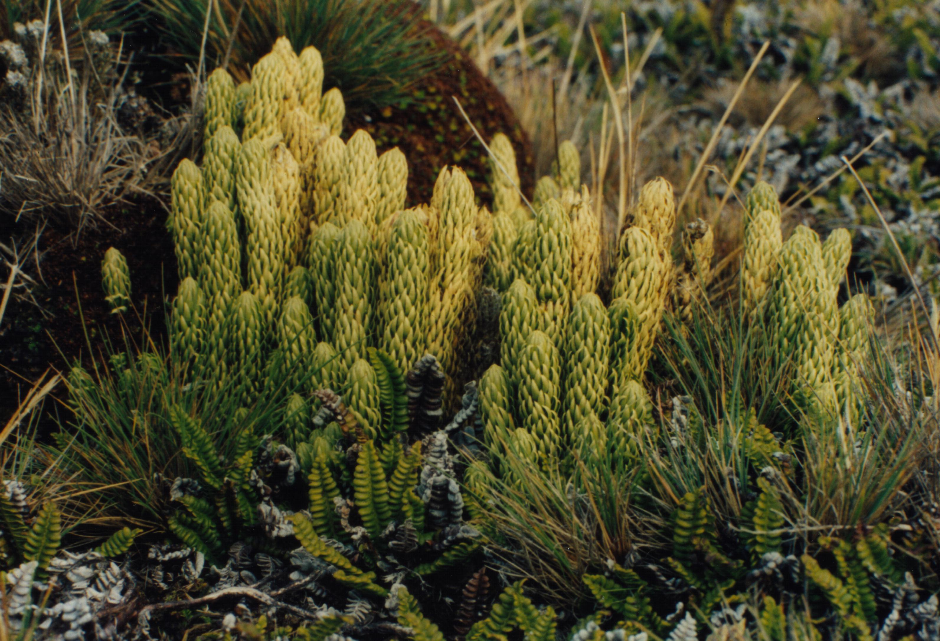 Huperzia saururus (syn. Lycopodium saururus) on Mayes island - Kerguelen islands scan of photo: B.navez - JUL 1999